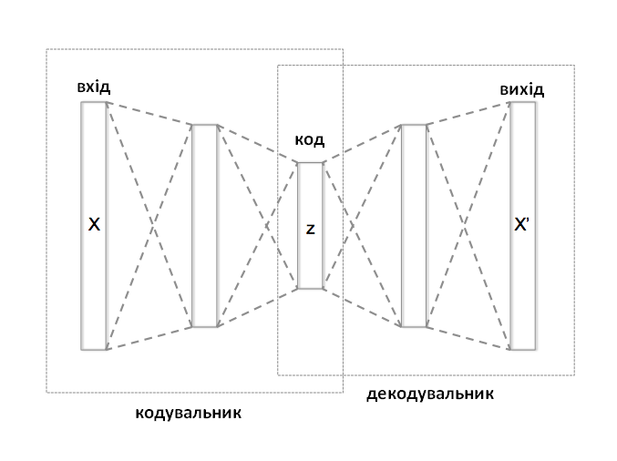 Schematic picture of an autoencoder architecture (in Ukrainian)